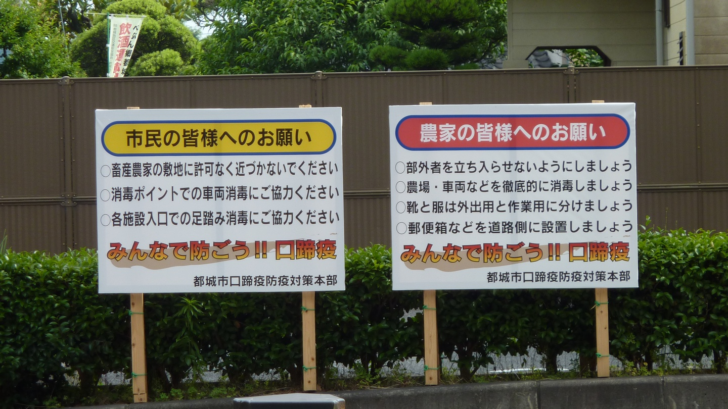 The Sign for the steps to prevent FMD (Miyakonojo City, Miyazaki Prefecture, Japan).